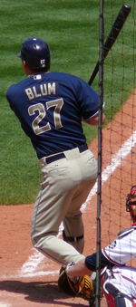 Picture I took of Geoff Blum on 5-10-07 23:31, 13 May 2007 . . Chrisjnelson . . 150×339 (104,415 bytes)